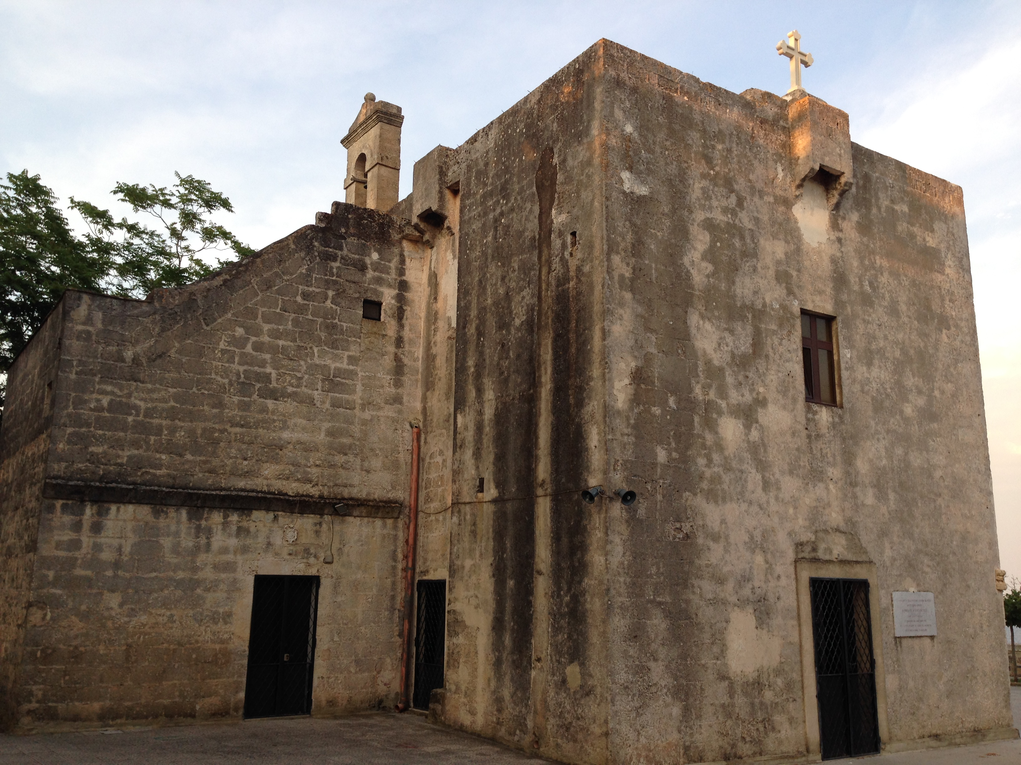 Marina Serra